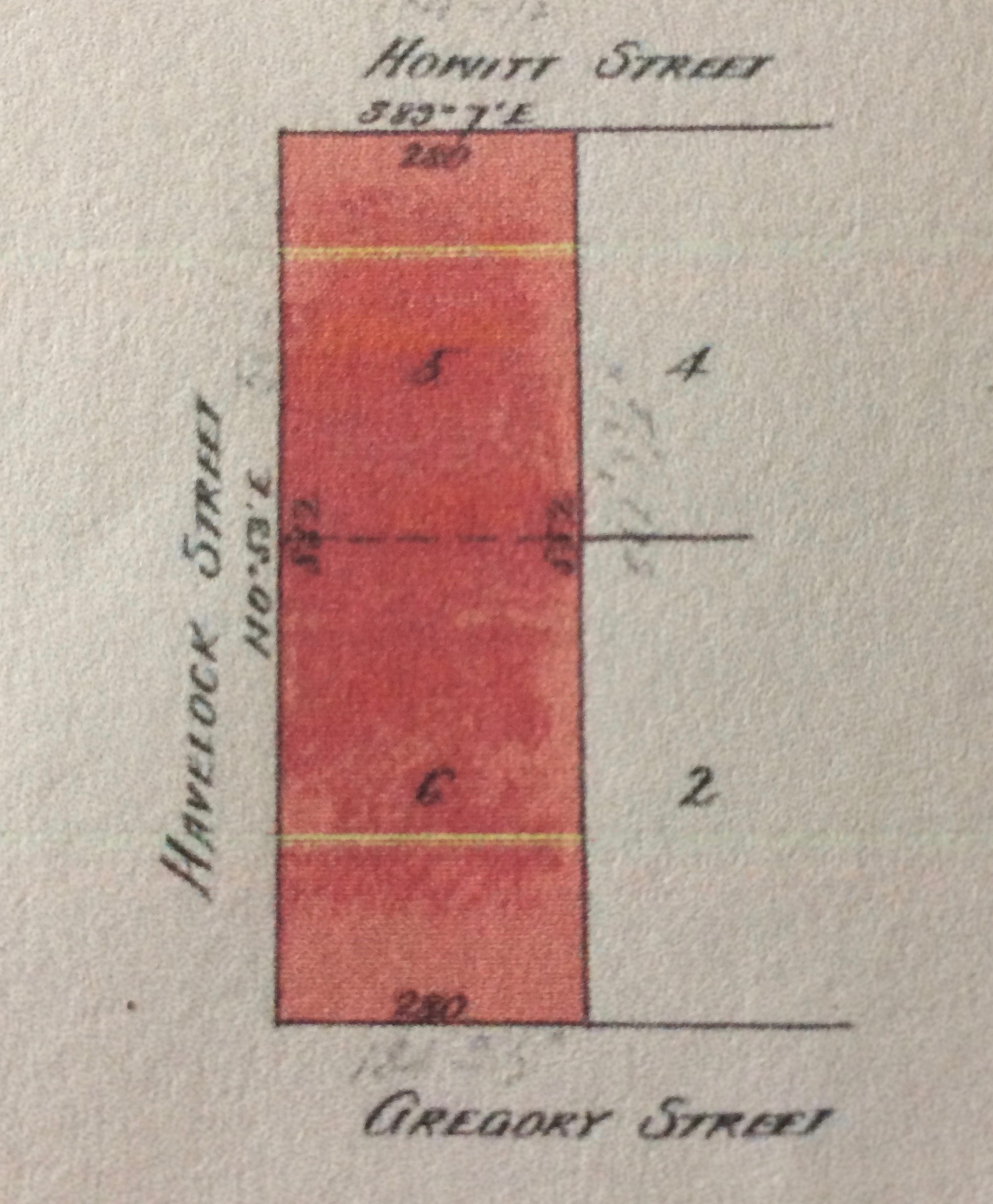 Map of the allotments of the Trelawny Soldiers Hill propety in 1909